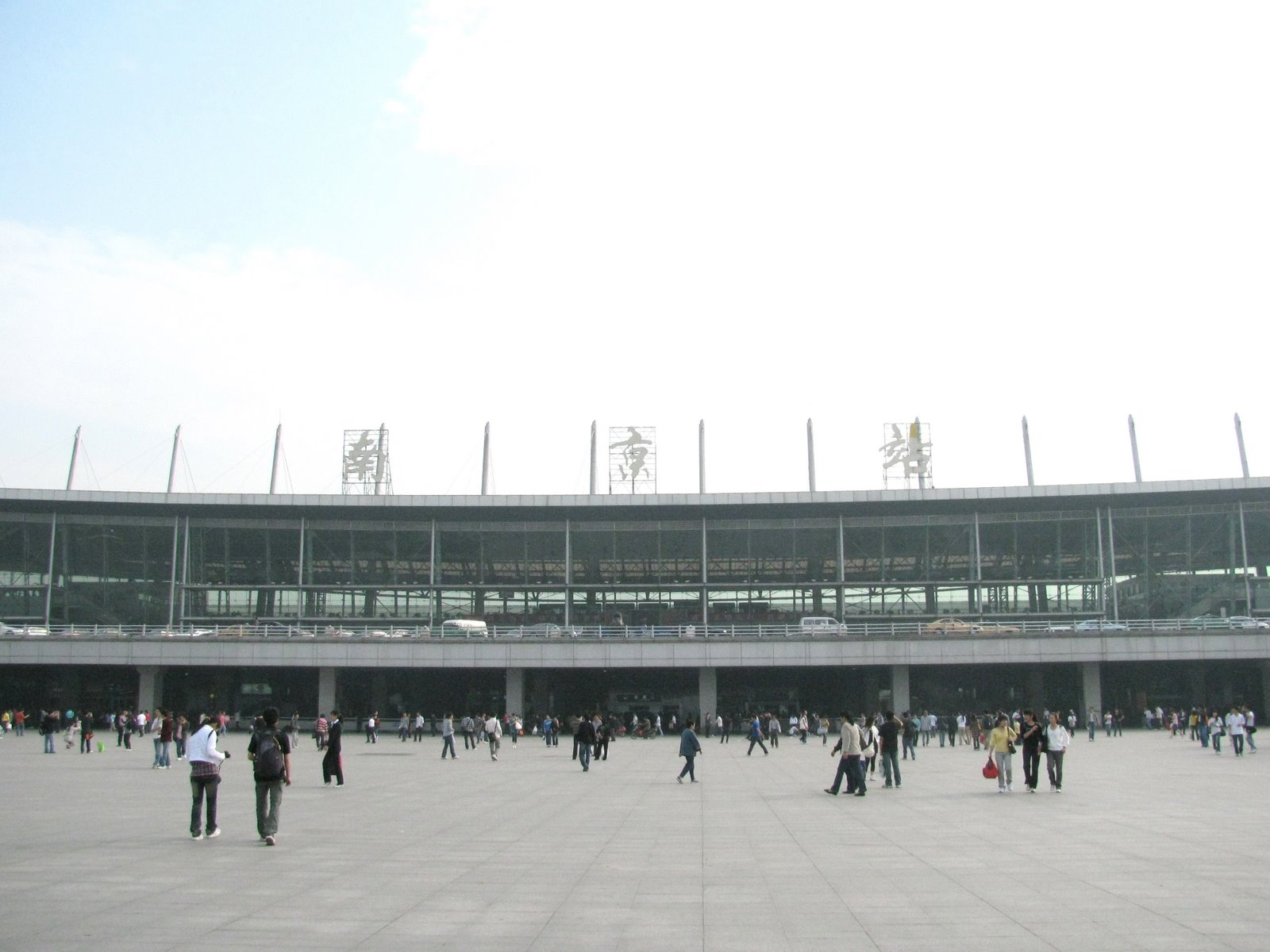 Nanjing Railway Station